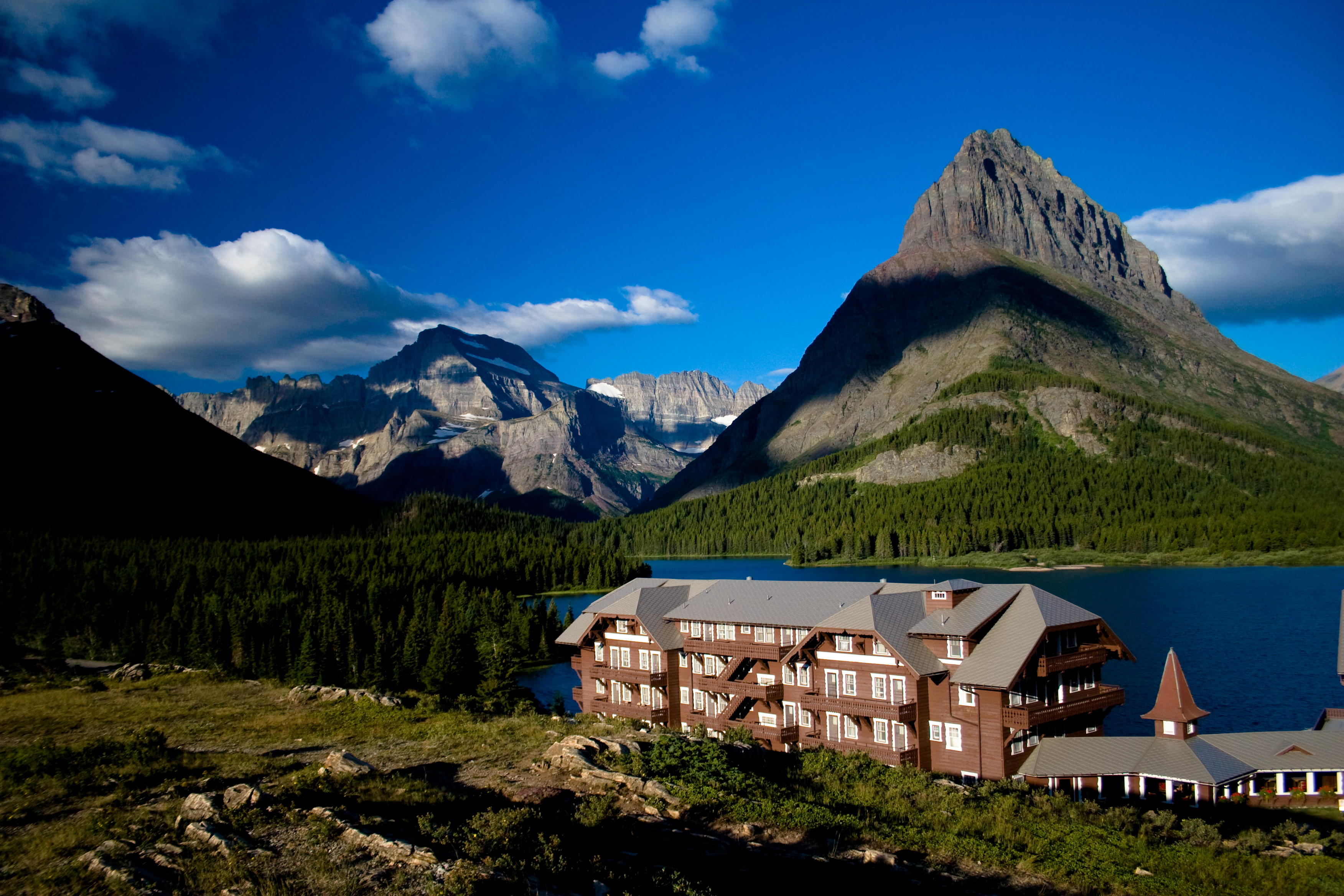 Many Glacier Hotel, Glacier National Park, Montana, USA